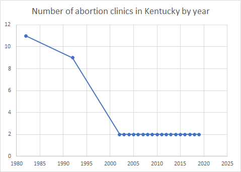 Number of abortion clinics in Kentucky by year. Created using data linked on .